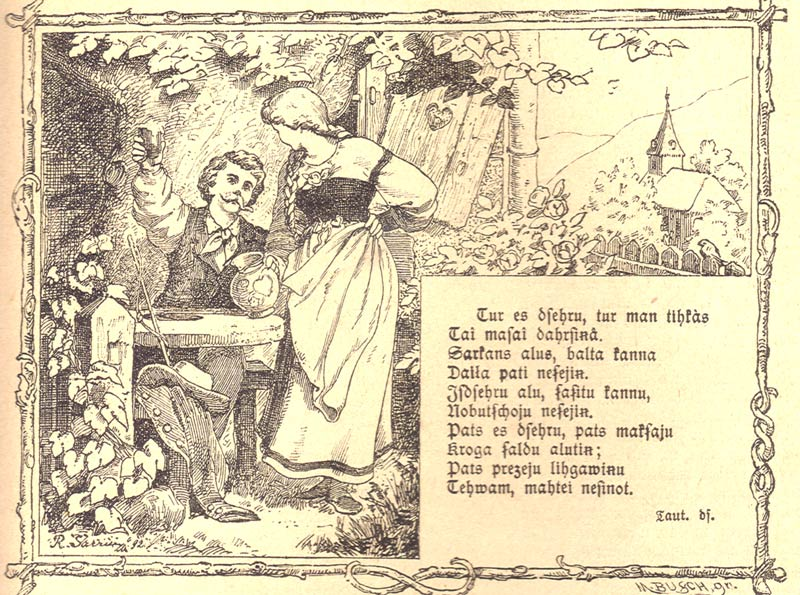 Illustration for Latvian 'Austrums' magazine, no. 2, 1892 by Rihards Zariņš